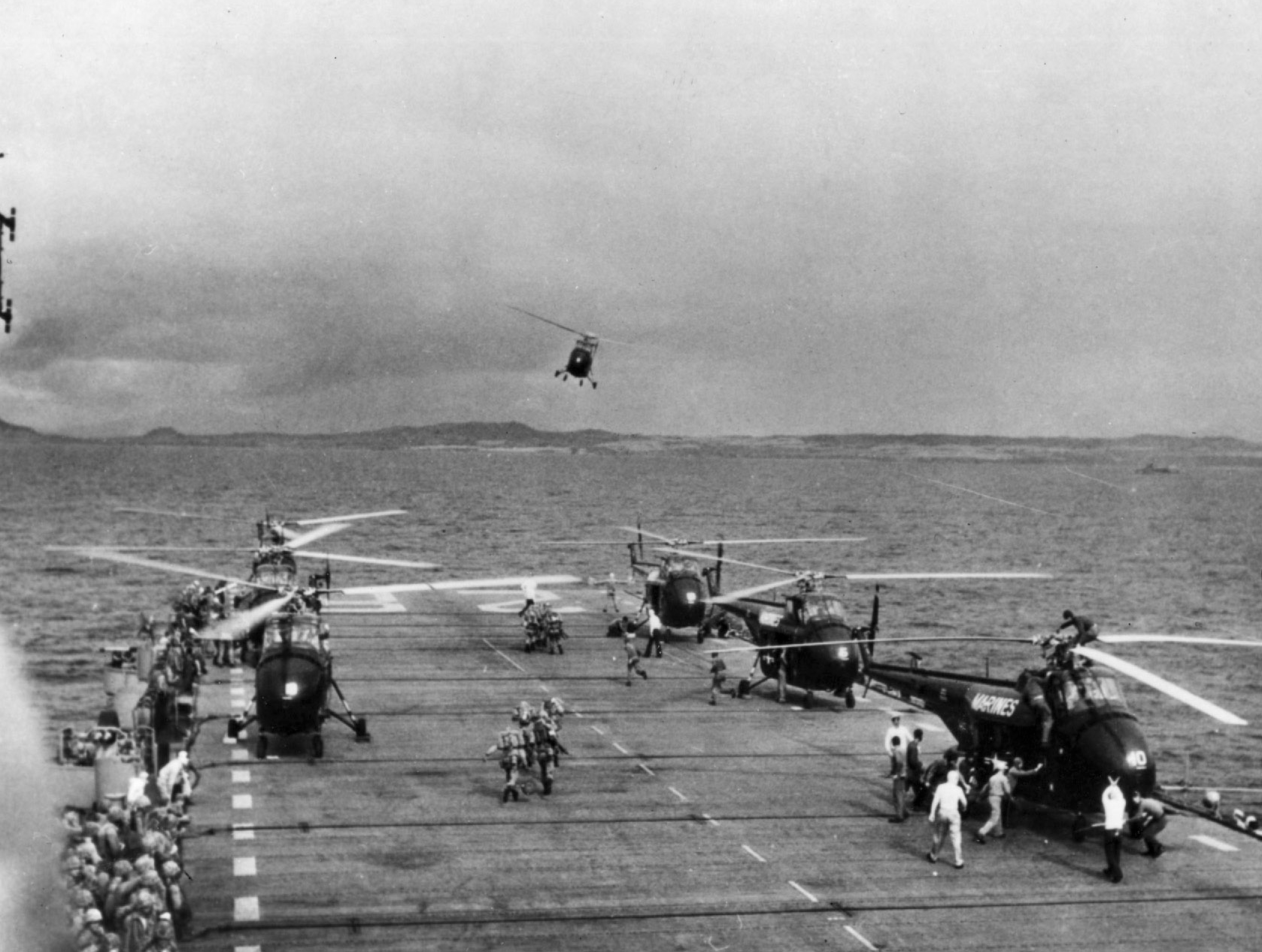 U.S. Marine Corps Sikorsky HRS helicopters during flight operations aboard the U.S. Navy aircraft carrier USS Cabot (CVL-28).